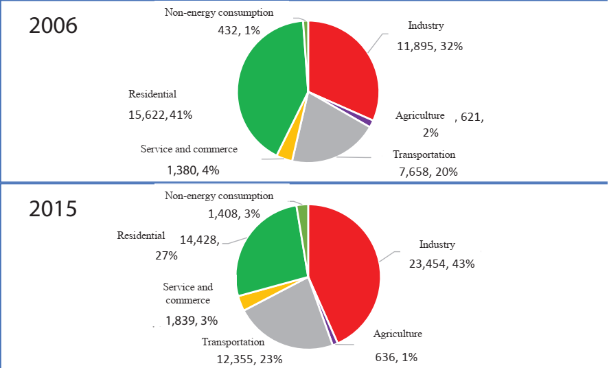 This Graph is extracted from Vietnam Energy Outlook Report 2017 by MOIT and DEA (Danish Energy Agency), available at